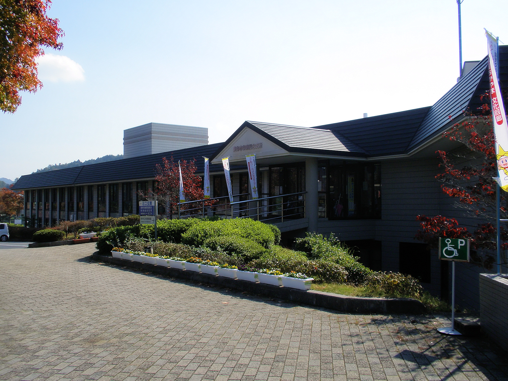 Mimasaka city office Sakutō branch Former Sakutō town office (1993.1 - 2005.3.30)